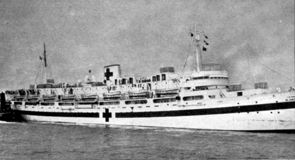 USAHS Blanch F. Sigman in port, c. 1944–1946. The Liberty ship was previously known as SS Stanford White, and later as U.S. Army transport USAT Blanche F. Sigman.